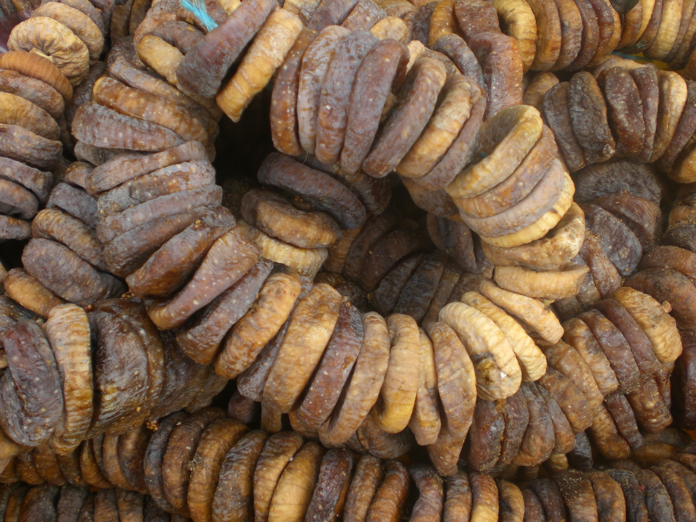 Figue sèche